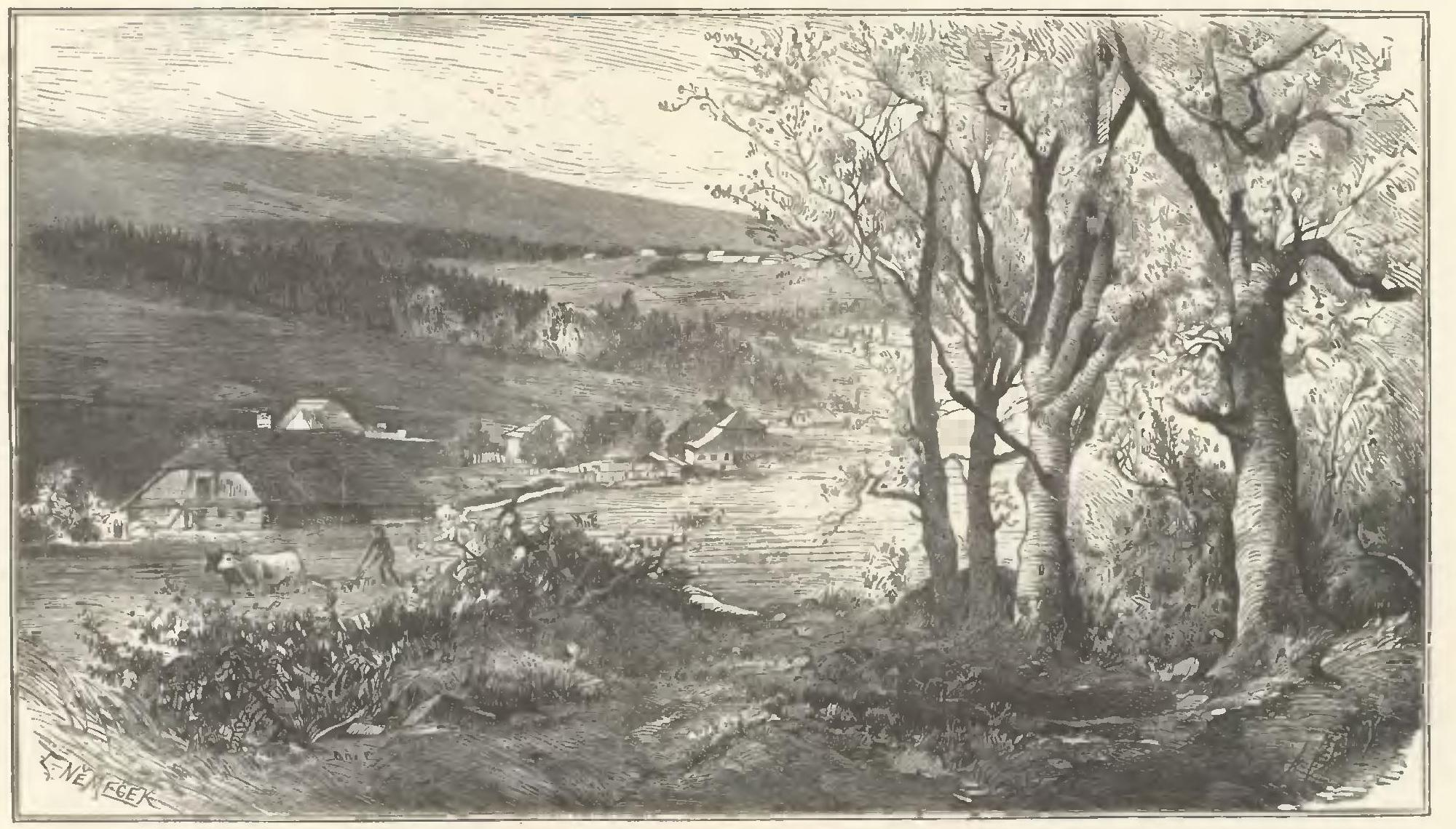 Fürstenhut (present-day abandoned village Knížecí Pláně) in the second half of the 19th century